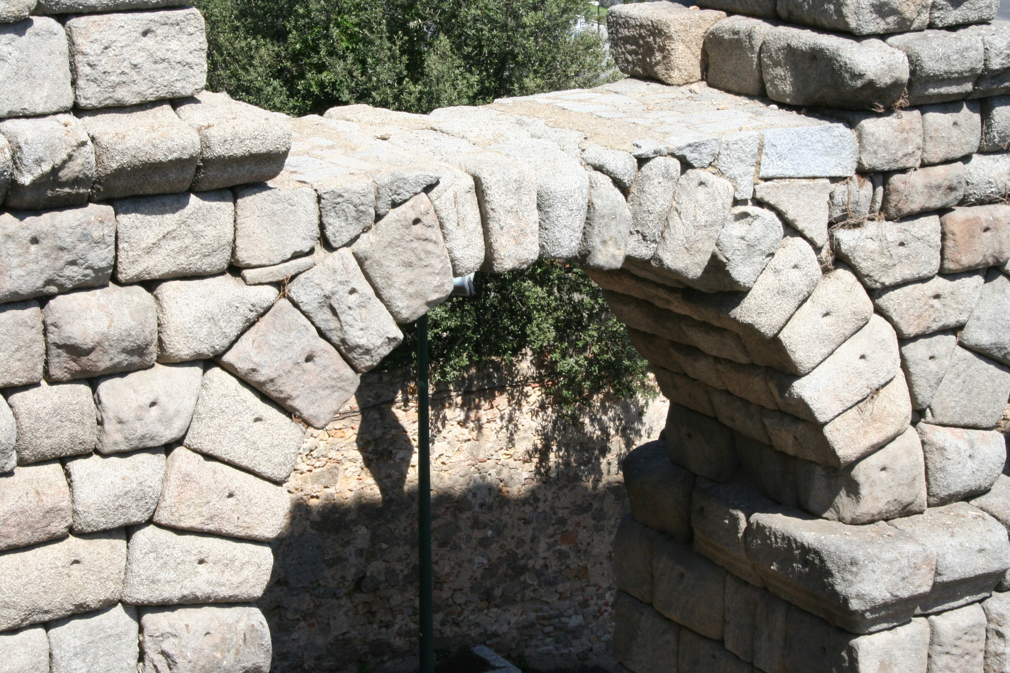 The Ancient Roman aqueduct in Segovia, Spain.